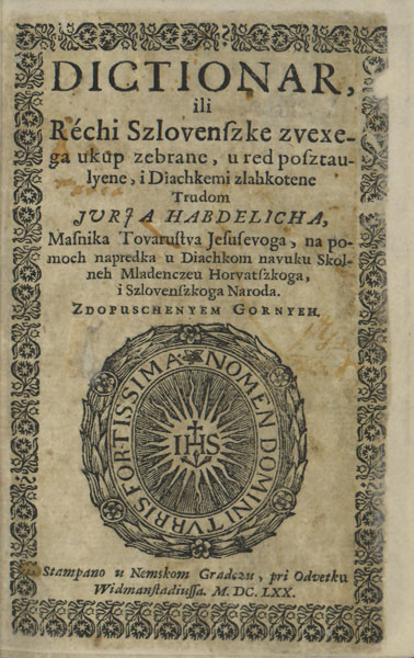 Early croatian dictionary of Kajkavian Croatian language written by Juraj Habdelić in 1670.